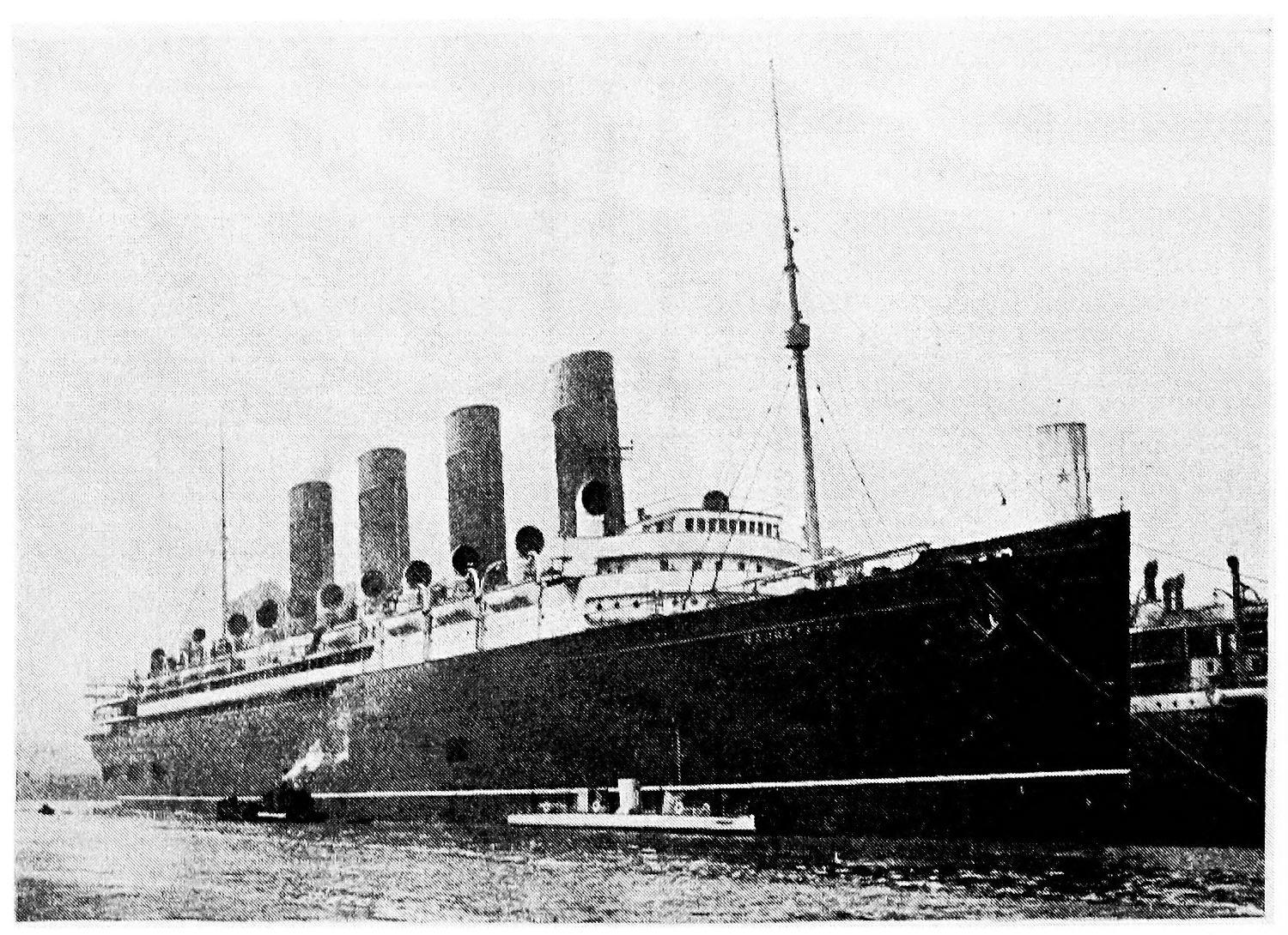 The Steam Turbine, the 1911 Rede Lecture: Figure 1: "The Turbinia and Mauretania".